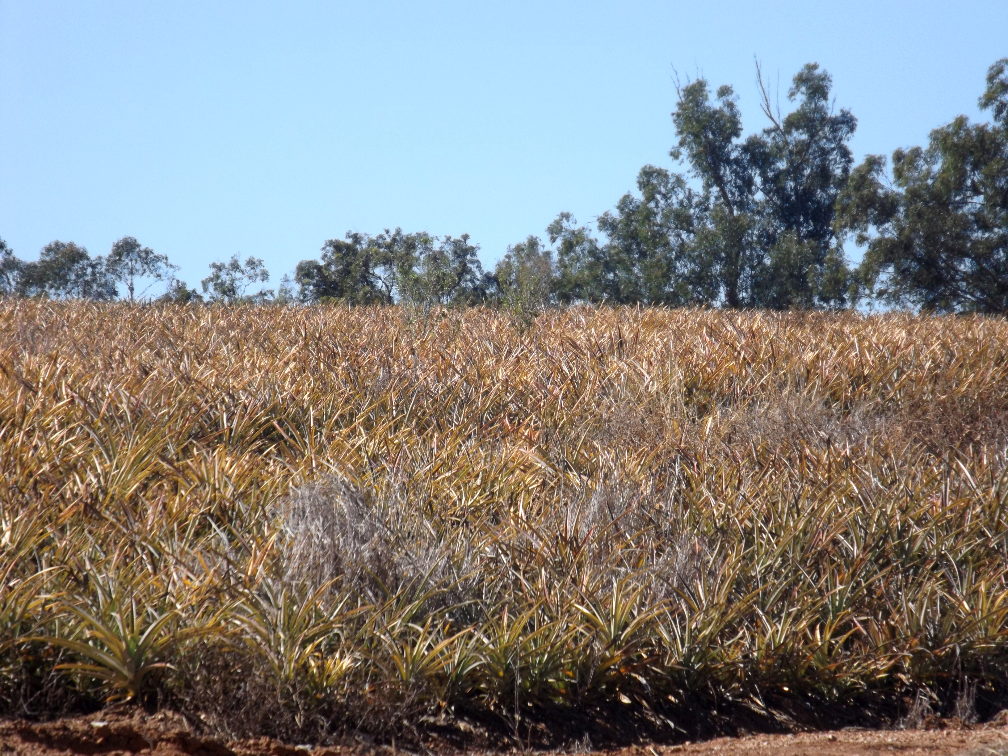 Photo of pineapple crop along Gamgee Road at Wamuran Moreton Bay Region, Queensland, Australia.